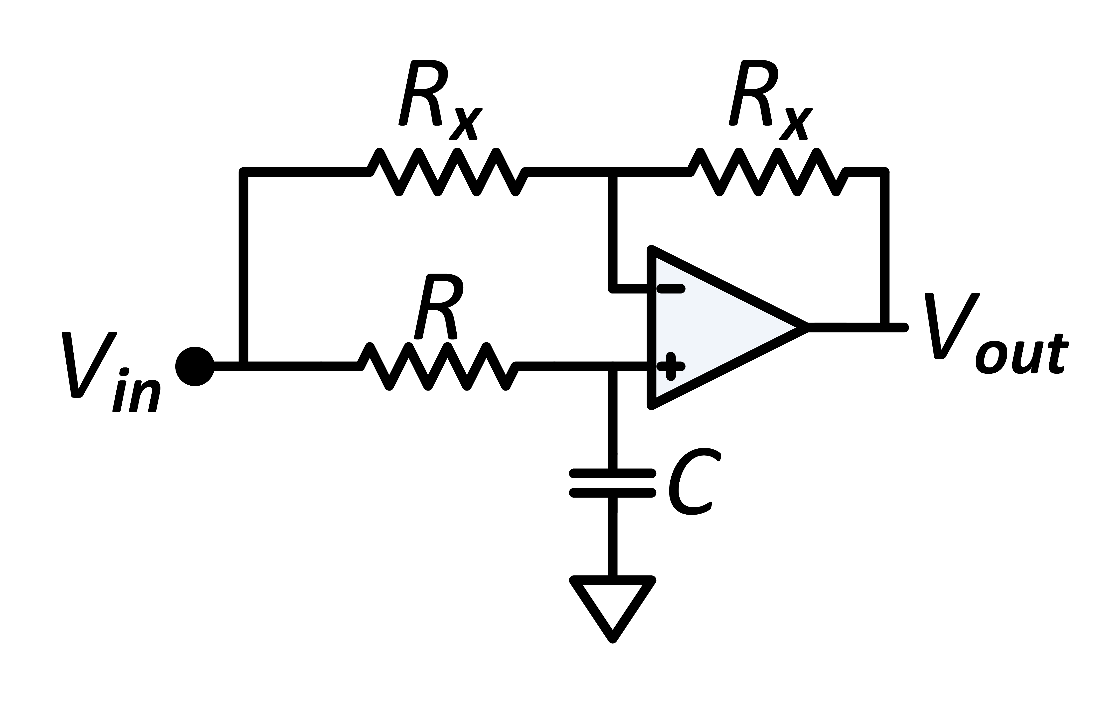 A schematic of an op-amp based all-pass filter. This type produces phase lag, varying from 0 at DC to -180 degrees at infinite frequency.